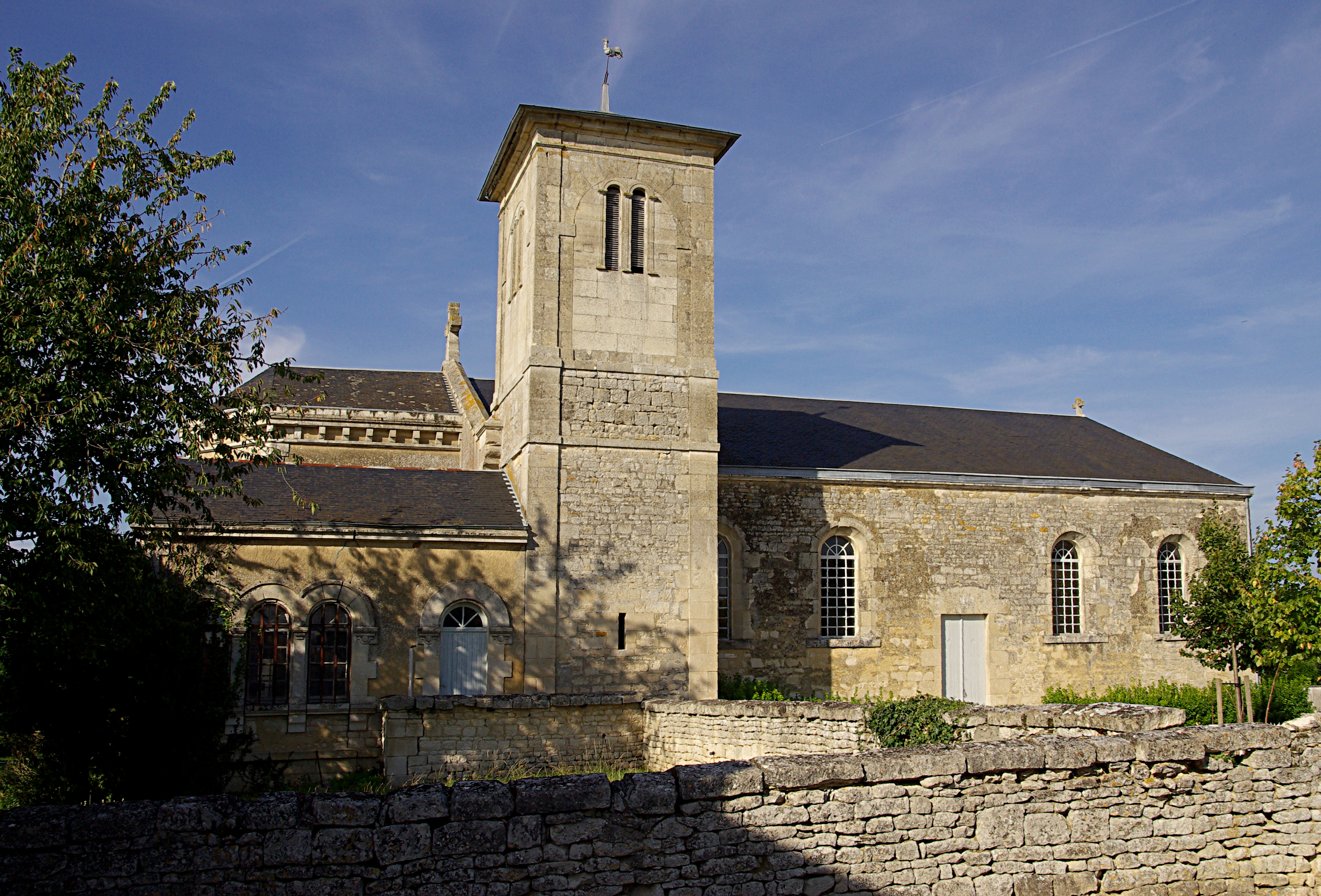 The Saint-Sigismond' church in Vendée.